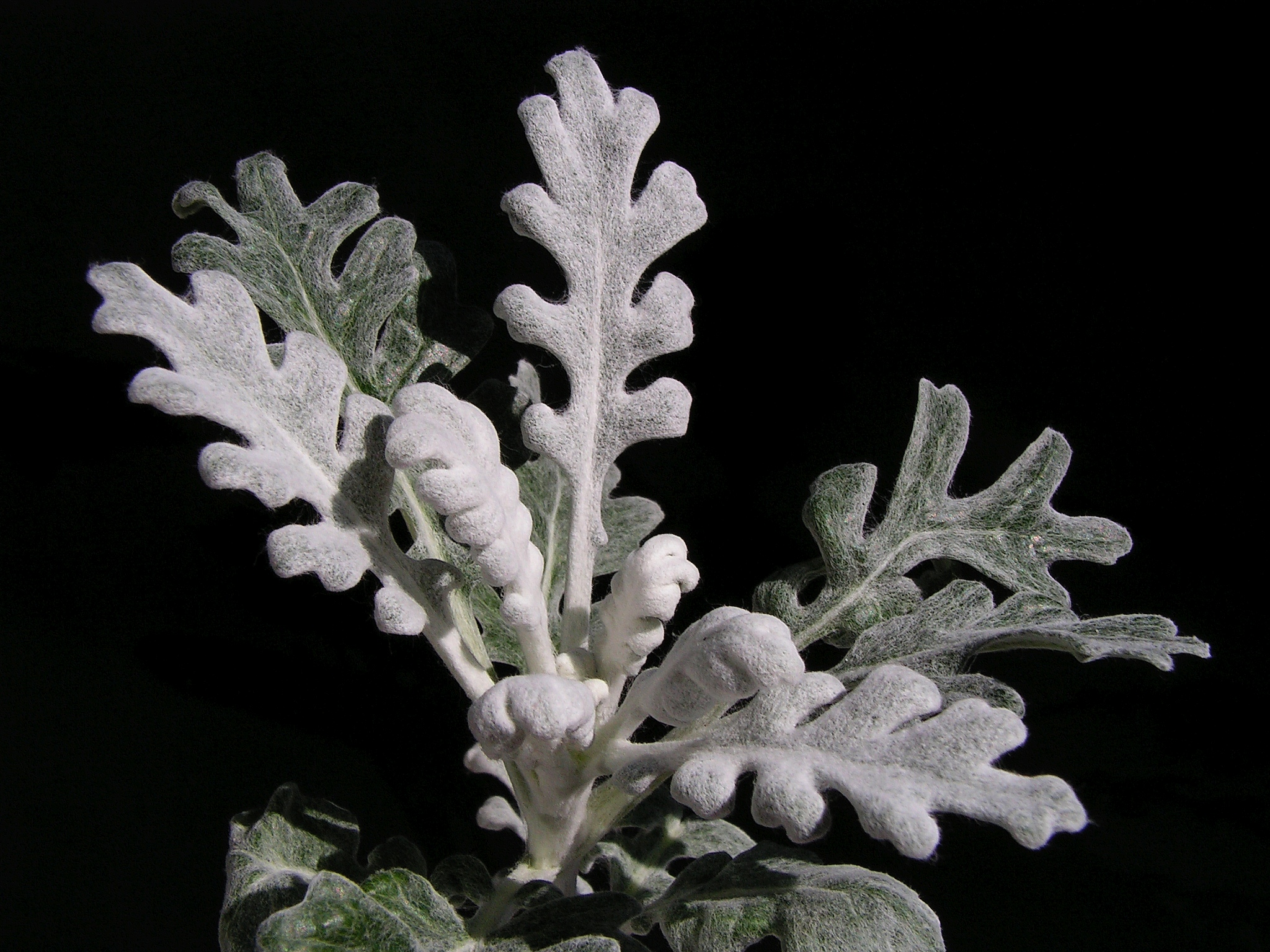 Top of the shoot of Silver Ragwort.